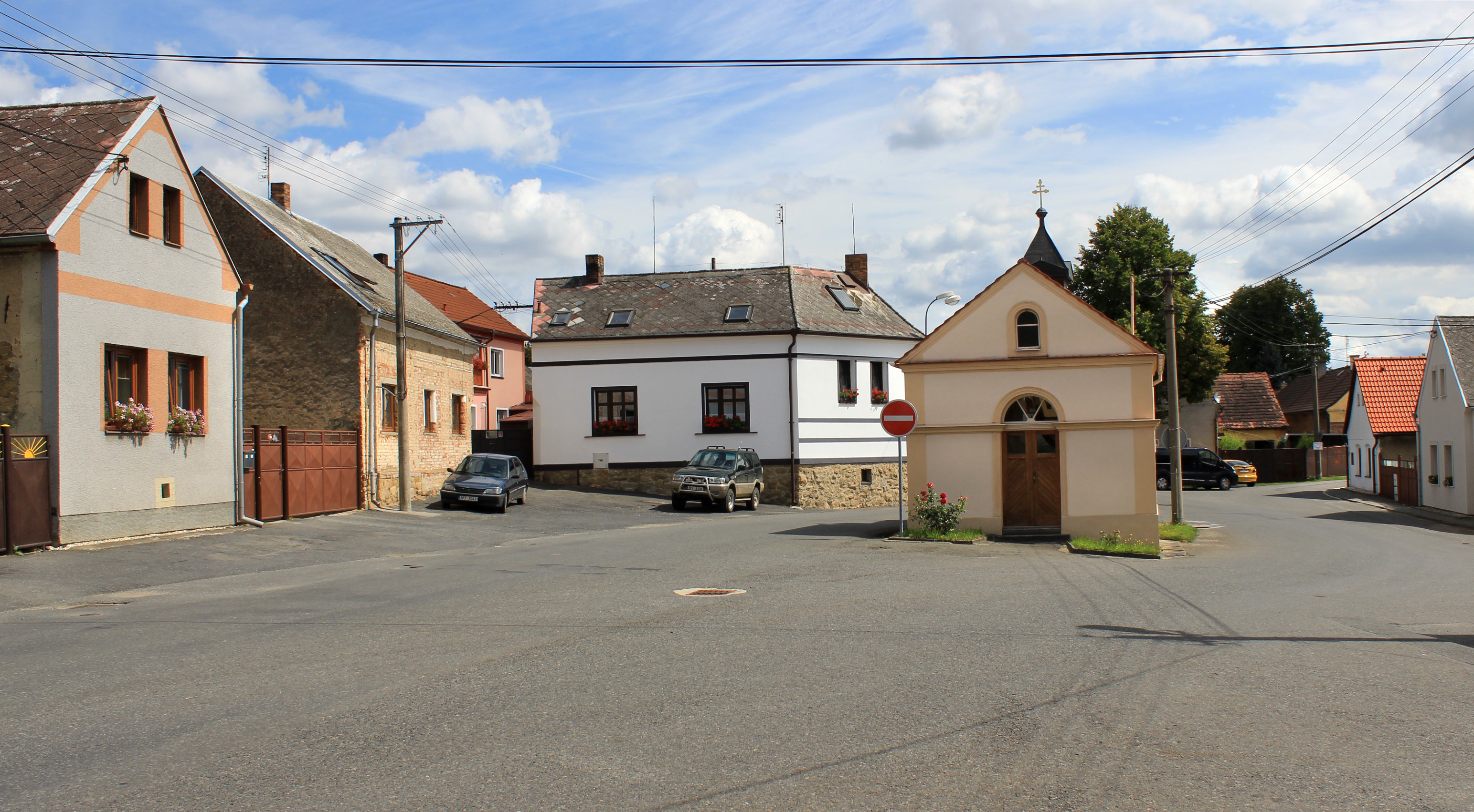 Common in Čermná, Czech Republic.